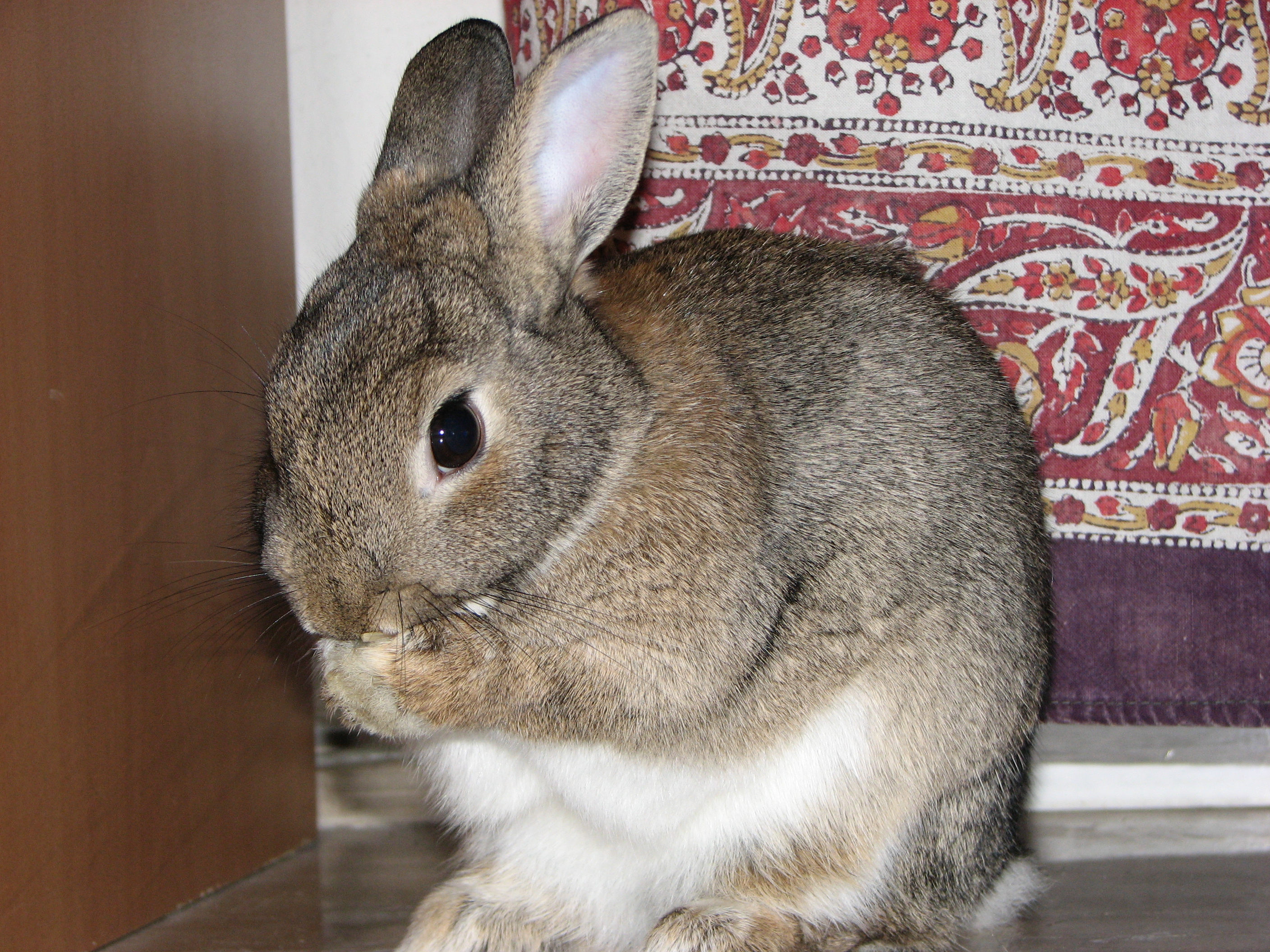 Domestic rabbit cleaning itself. Lilly passed away April the 5th 2013.